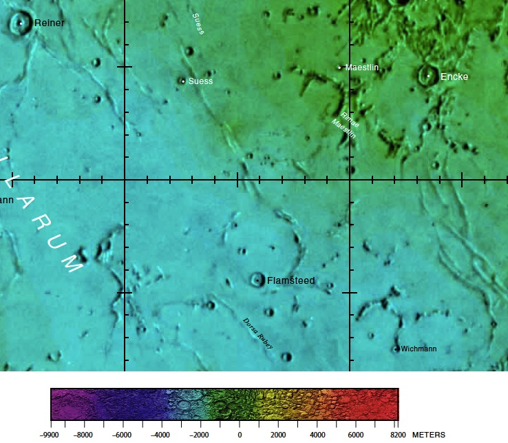 Part of the USGS near side lunar chart